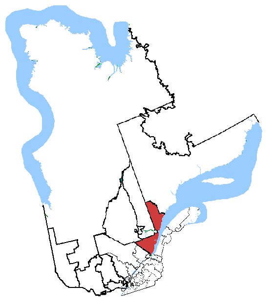 Map of the Montmorency—Charlevoix—Haute-Côte-Nord electoral district. Based on Earl Andrew's maps, created by SimonP.